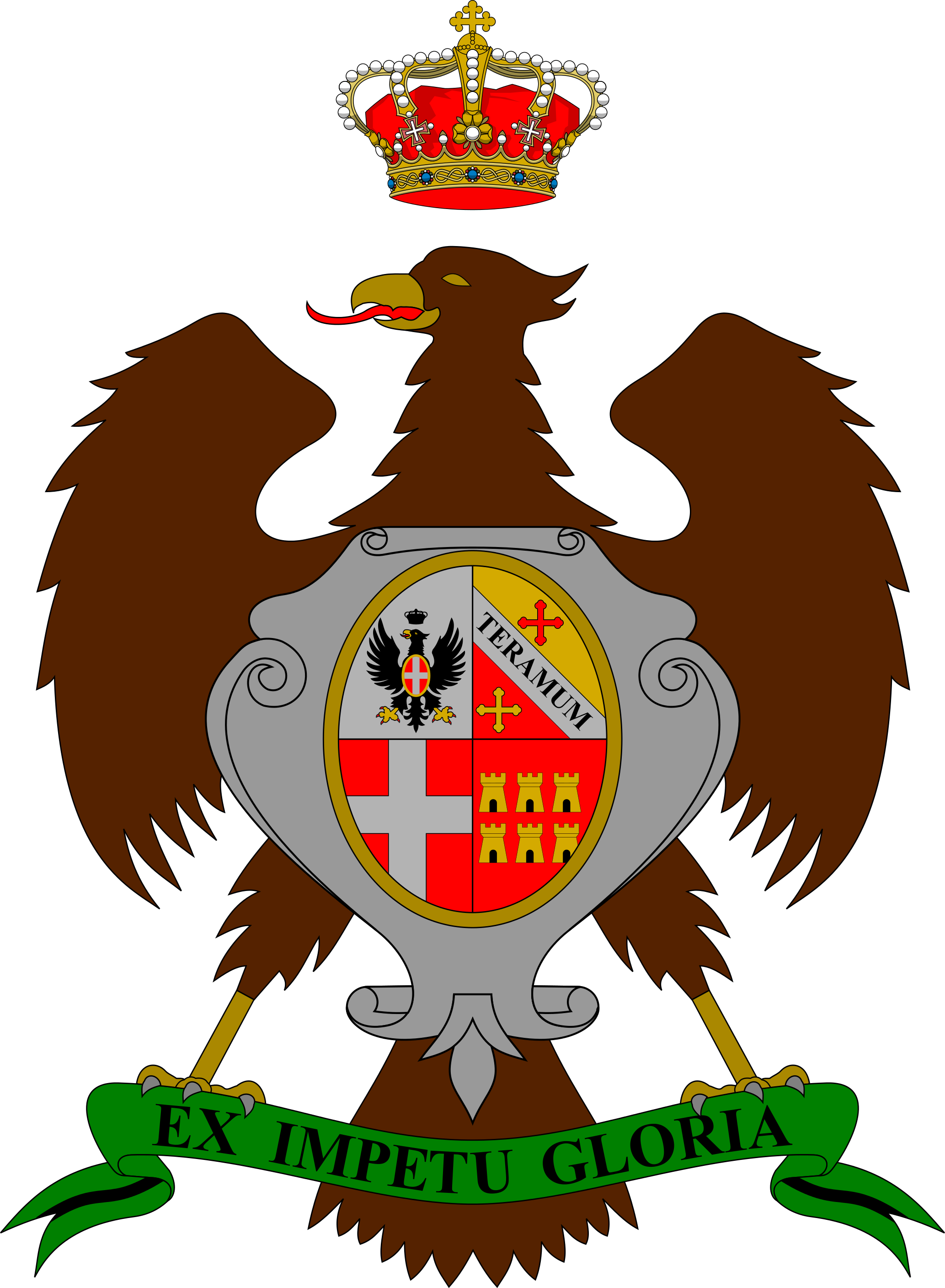 Coat of Arms of the 58th Infantry Regiment "Abruzzi", Royal Italian Army, 1939 - Royal Crown by user Flanker, released to public domain (see File:Crown of Savoy.svg)